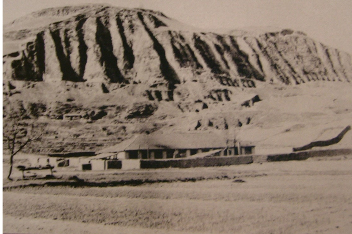 Yan'an Academy of Natural Sciences, Panorama